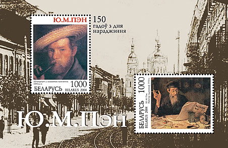 Stamp of Belarus